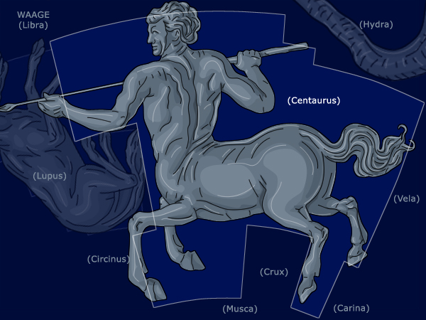 Illustration of the constellation centaurus